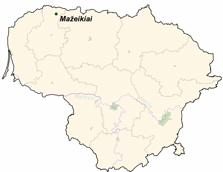 Mažeikiai on the map of Lithuania